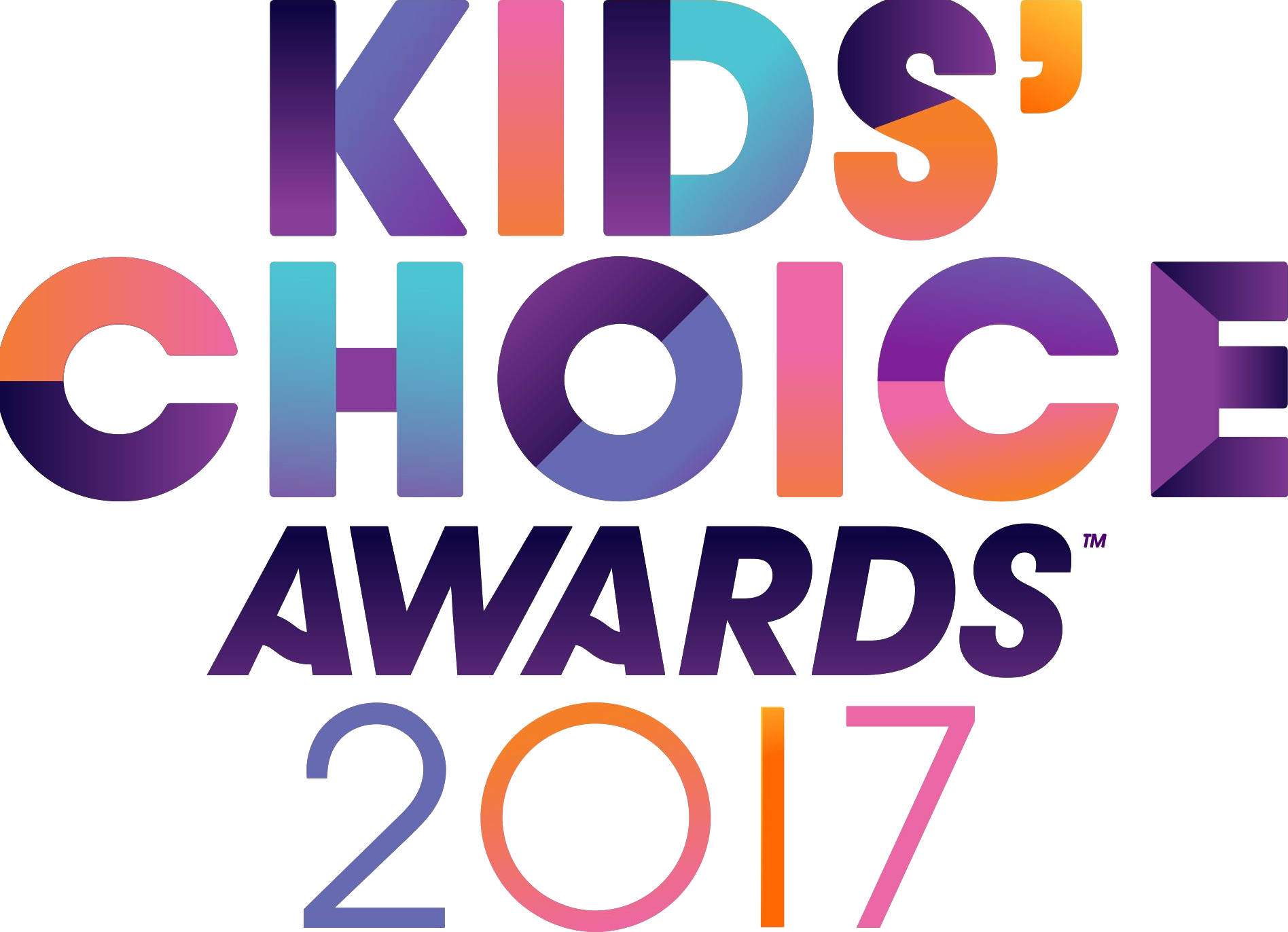 Logo of Nickelodeon's Kids' Choice Awards of the year 2017